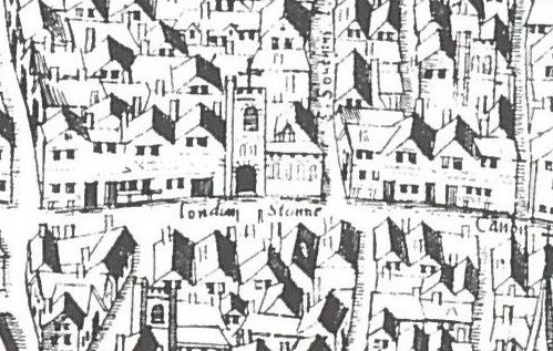 London Stone and St Swithin's Church in Cannon Street, London, as depicted on the "Copperplate" map of London of c.1553-59